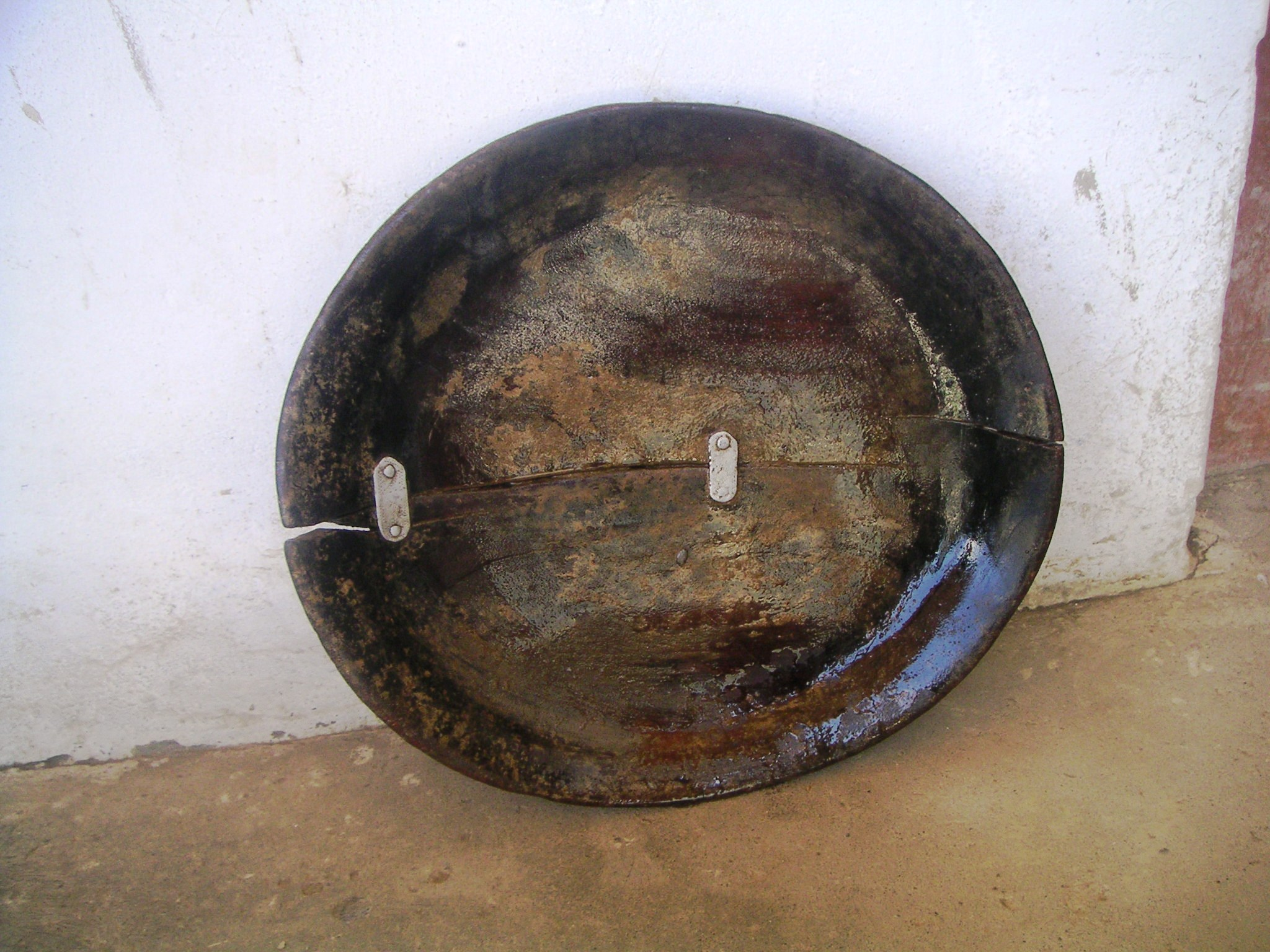 Old Khanak-Chitrali wooden utensil